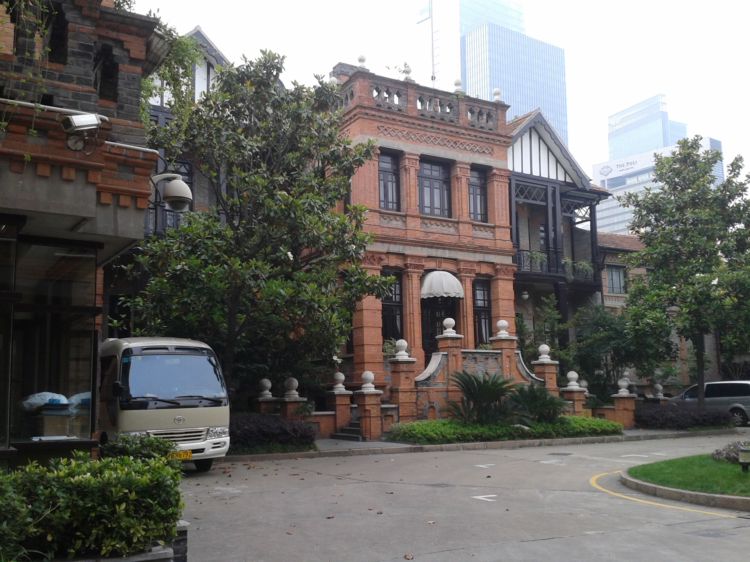 大胜胡同内的德拉蒙德住宅